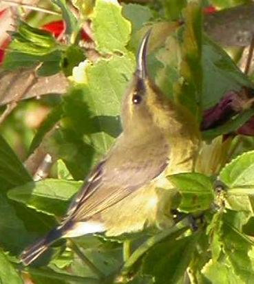 Cinnyris cupreus The Copper Sunbird Female seen in Uganda.